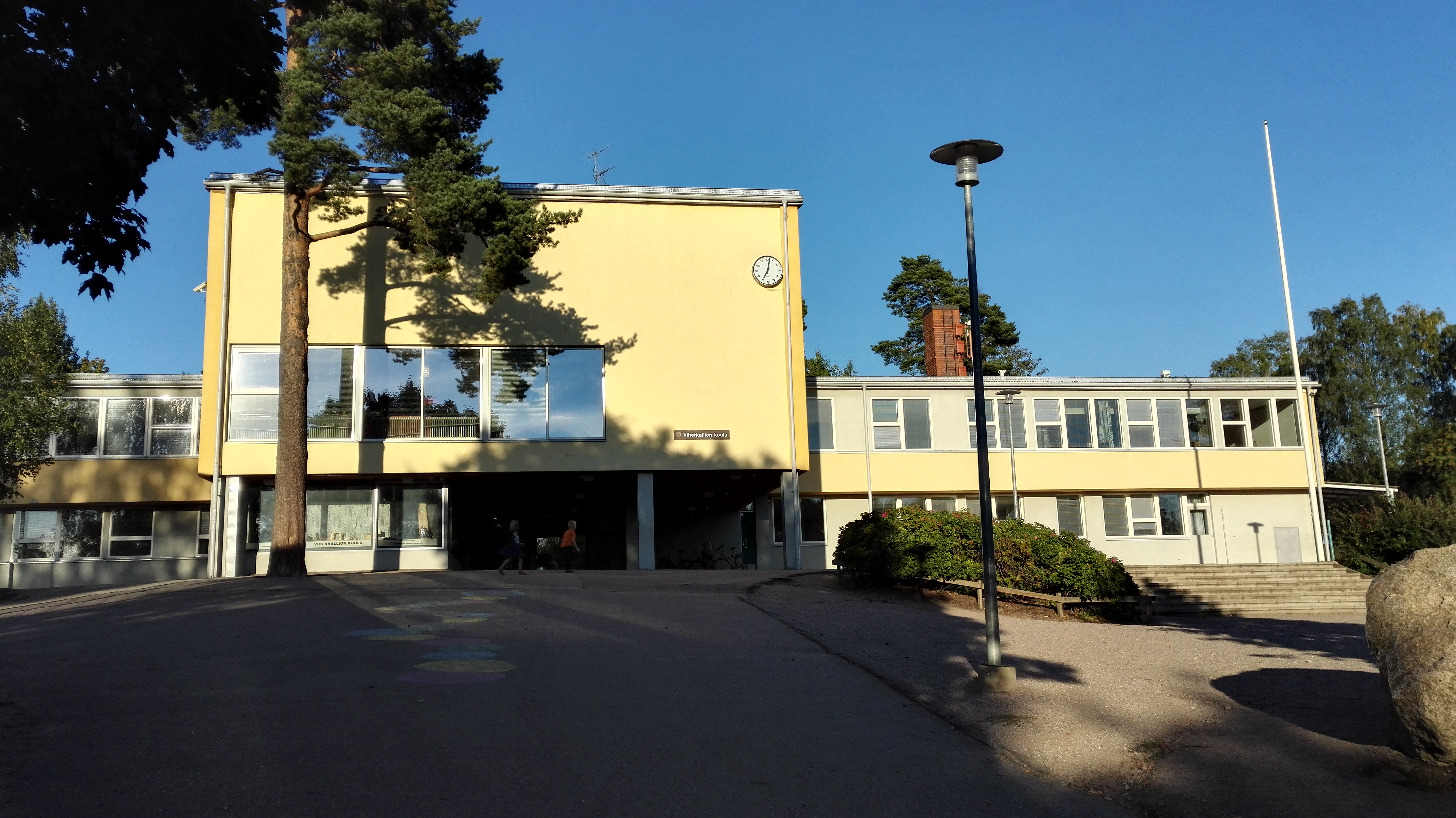 Viherkallion koulu is a school in Espoo.